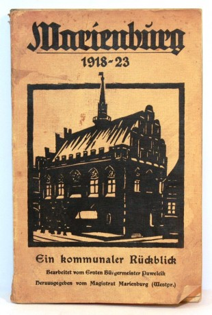 Cover of Pawelcik´s book on Marienburg